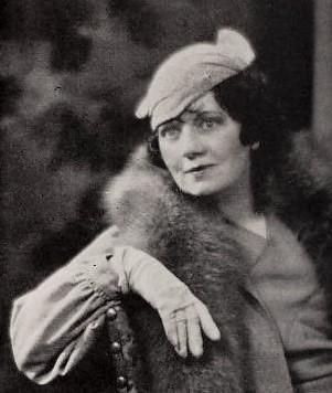 Publicity photo of influential color forecaster Margaret Hayden Rorke, circa 1936